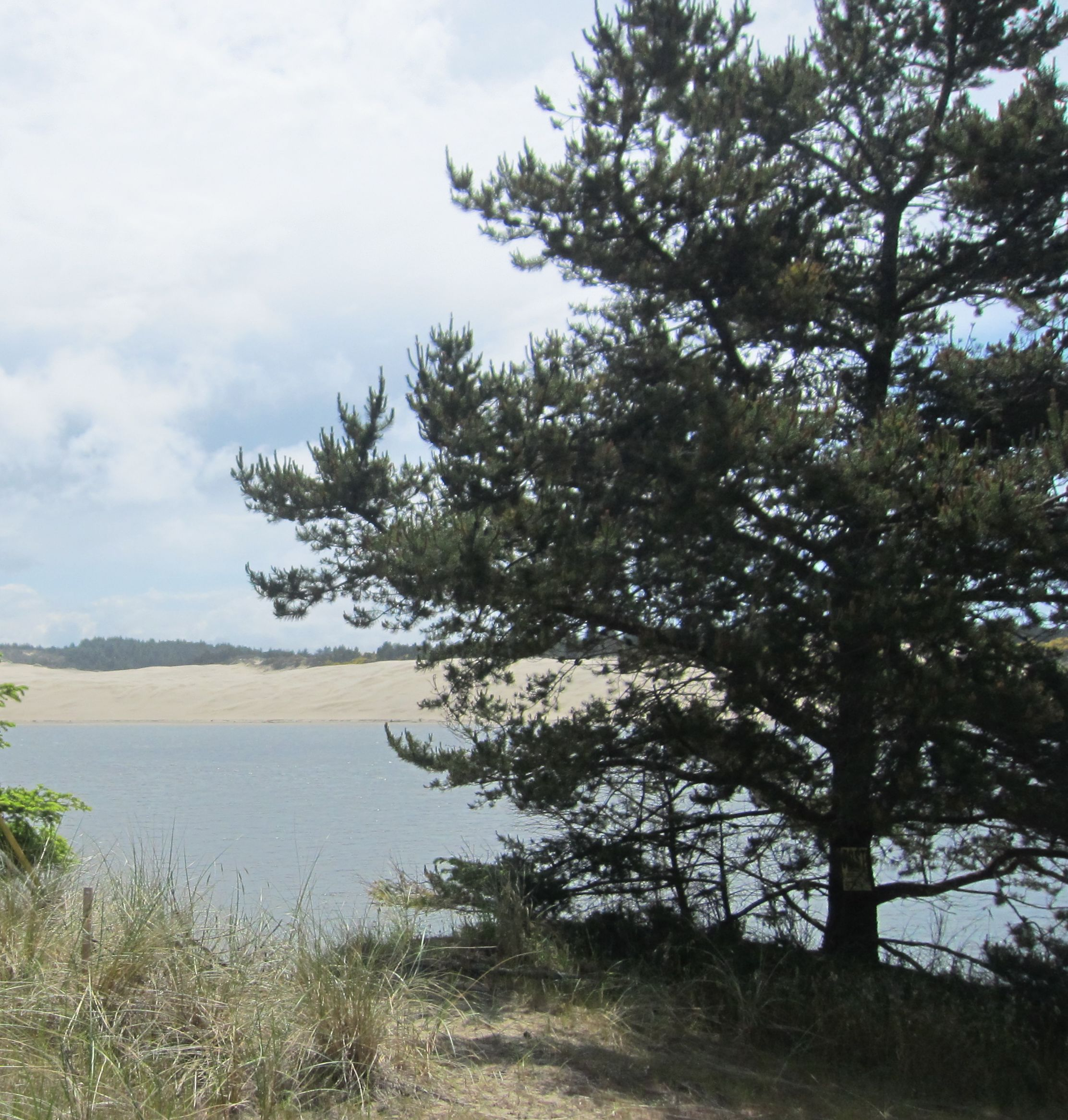 The Siuslaw river as seen from Florence.